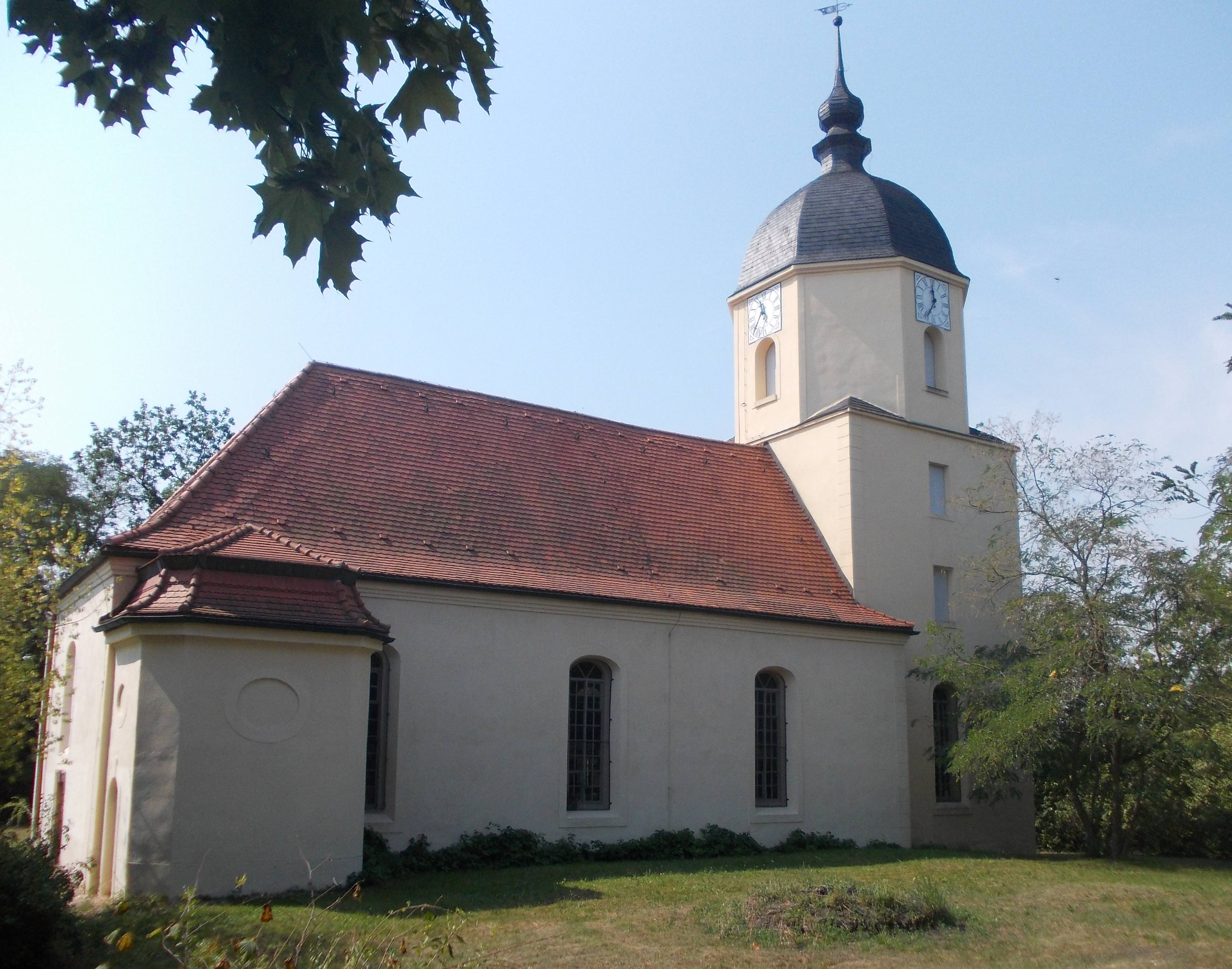 St. Catherine's Church in Ammendorf (Halle/Saale, Saxony-Anhalt)